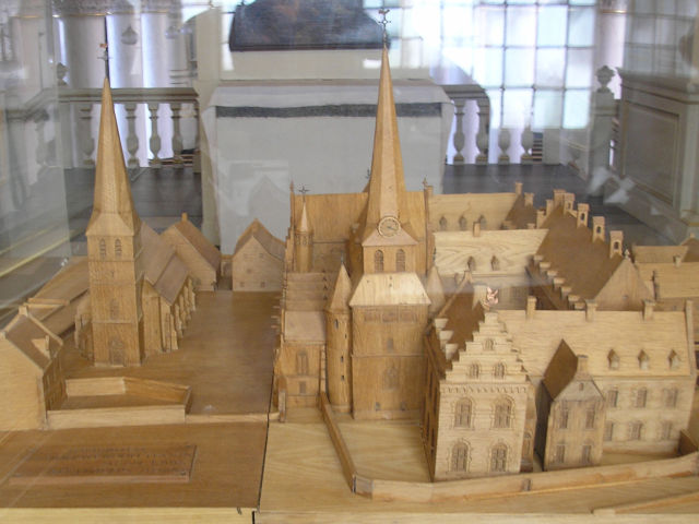 Modell of the abbey of Thorn in the Netherlands as it once was Location: Thorn, Limburg, Netherlands --- nl: Maquette van de abdij van Thorn zoals deze er ooit uit moet hebben gezien. Locatie: Thorn, Limburg, Nederland